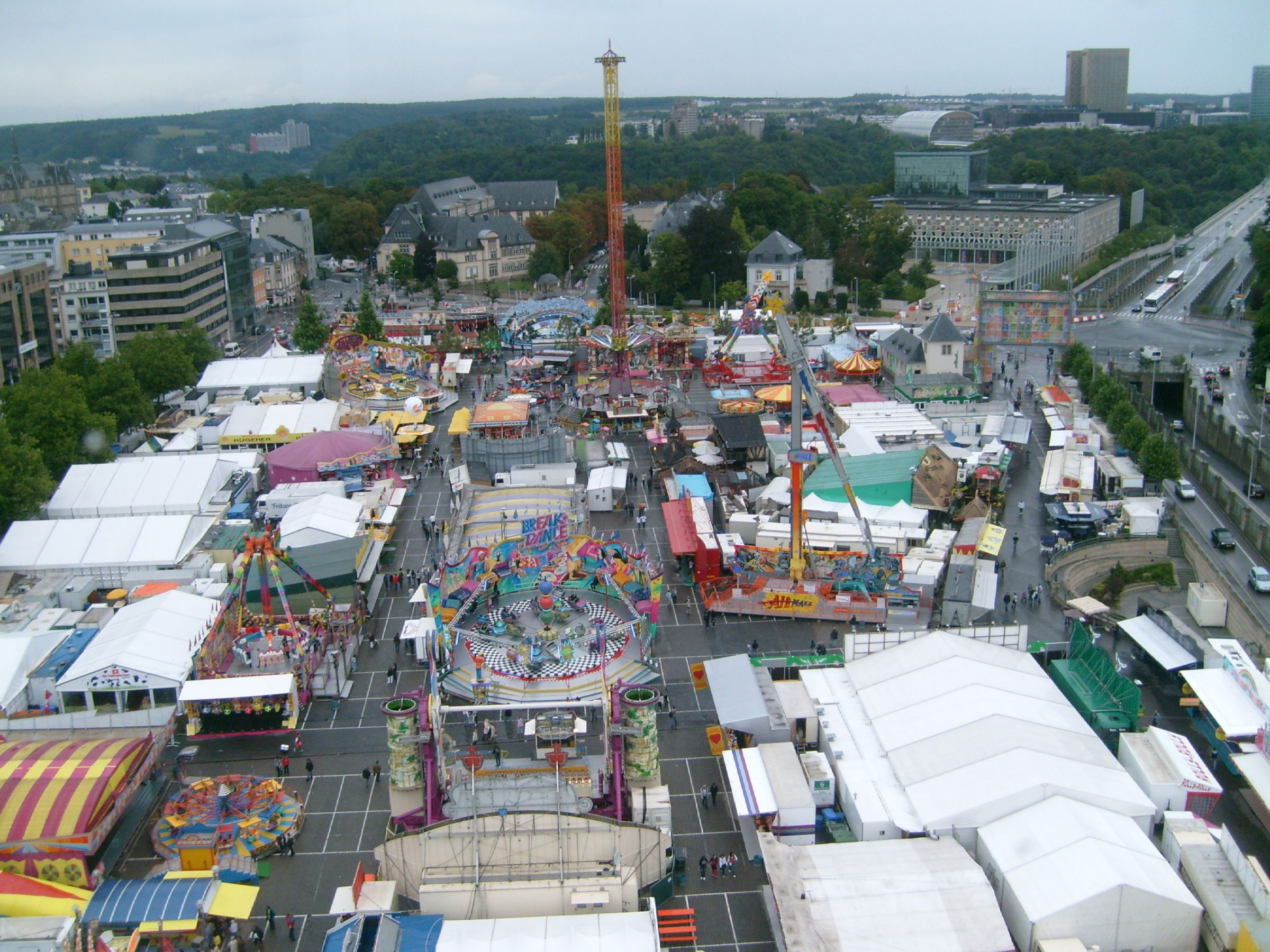 The Luxembourg fair named Schueberfouer is held every year since 1298 on the Glacis-squarre in Luxembourg-city. View from the Ferris wheel towards north-east